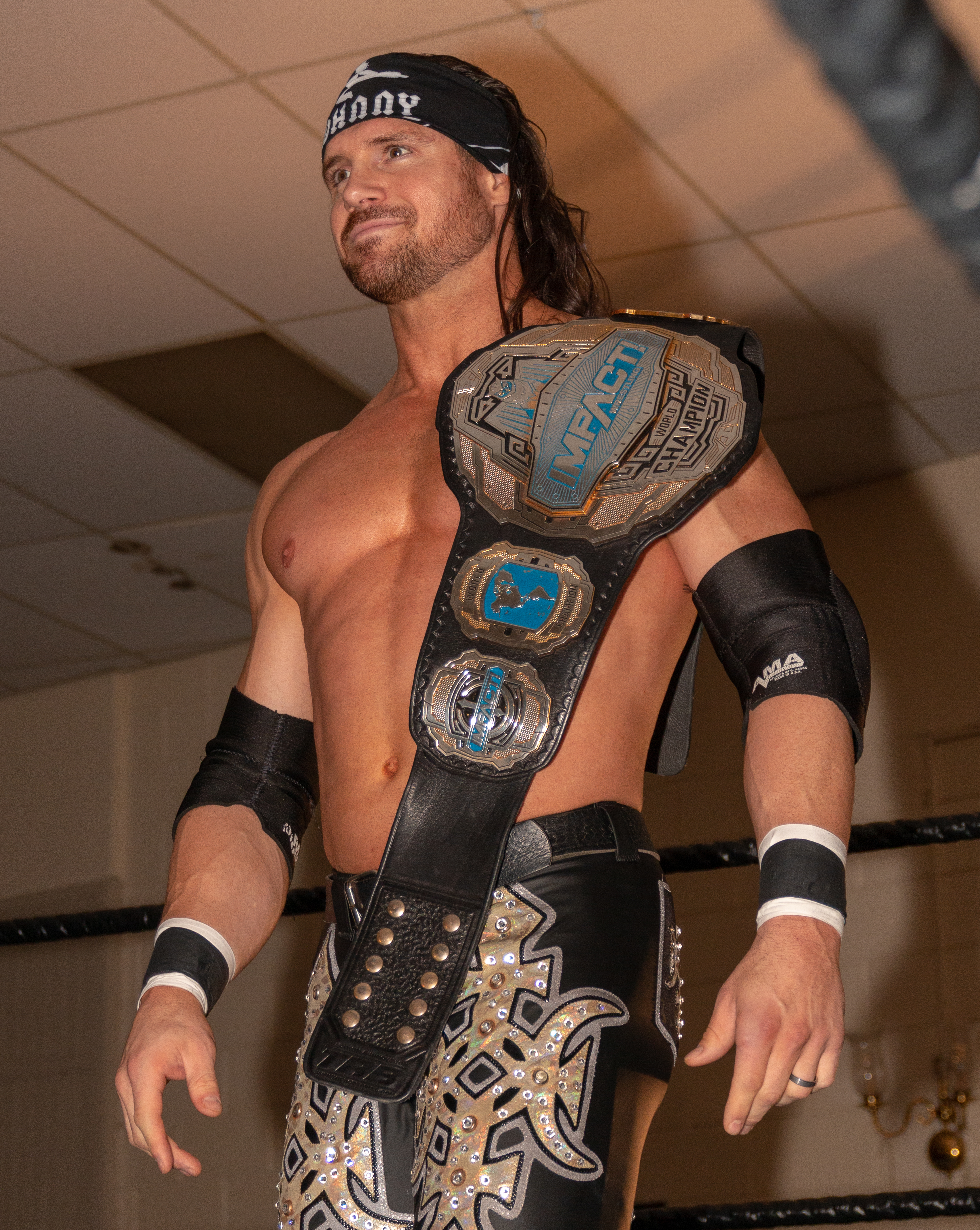 Pro wrestler Johnny Impact with the Impact World Championship at Alpha-1's SuperSlam 2019 at Hamilton, ON